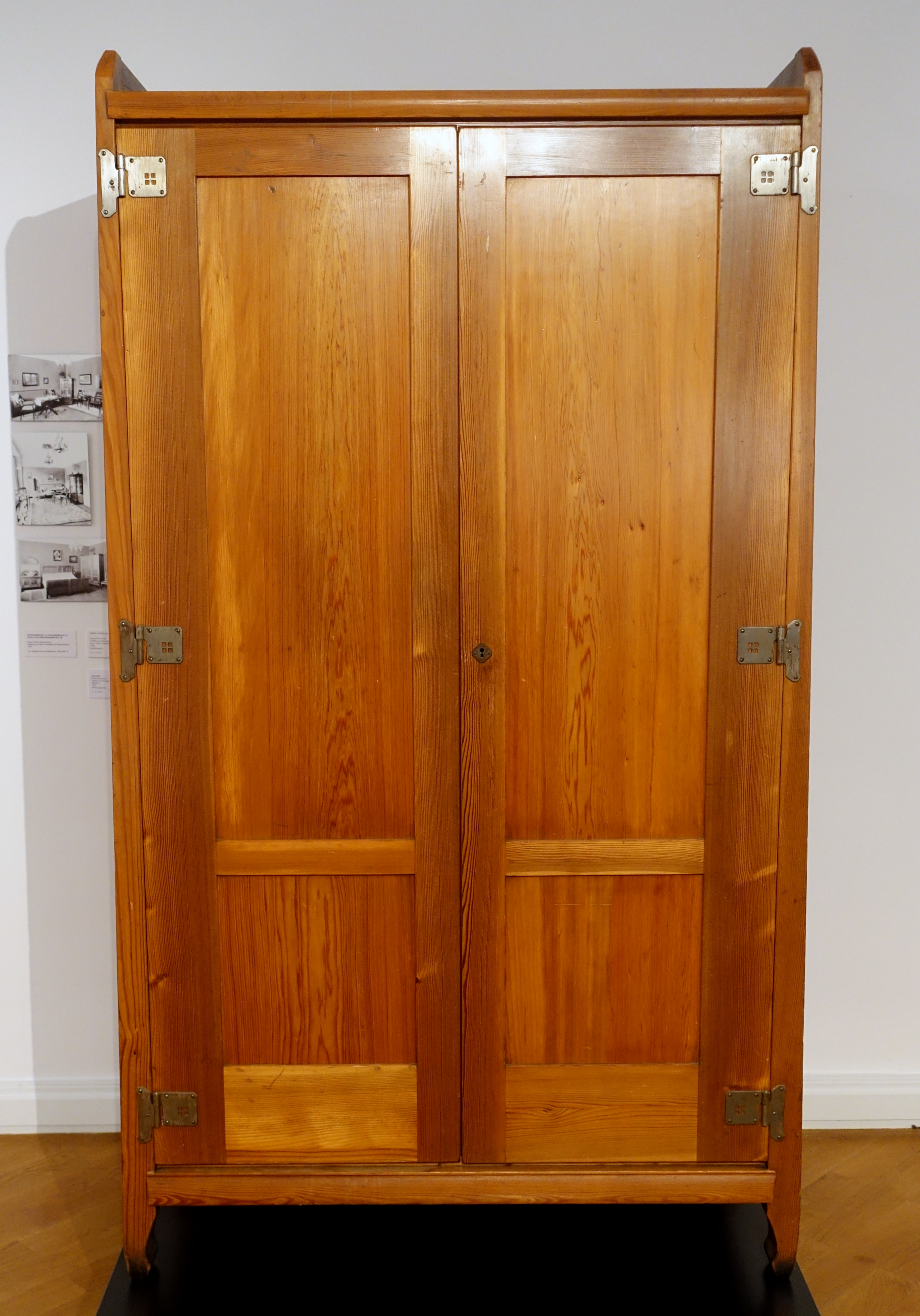 Exhibit in the Bröhan Museum, Berlin, Germany. This work is in the public domain because the artist died more than 70 years ago.